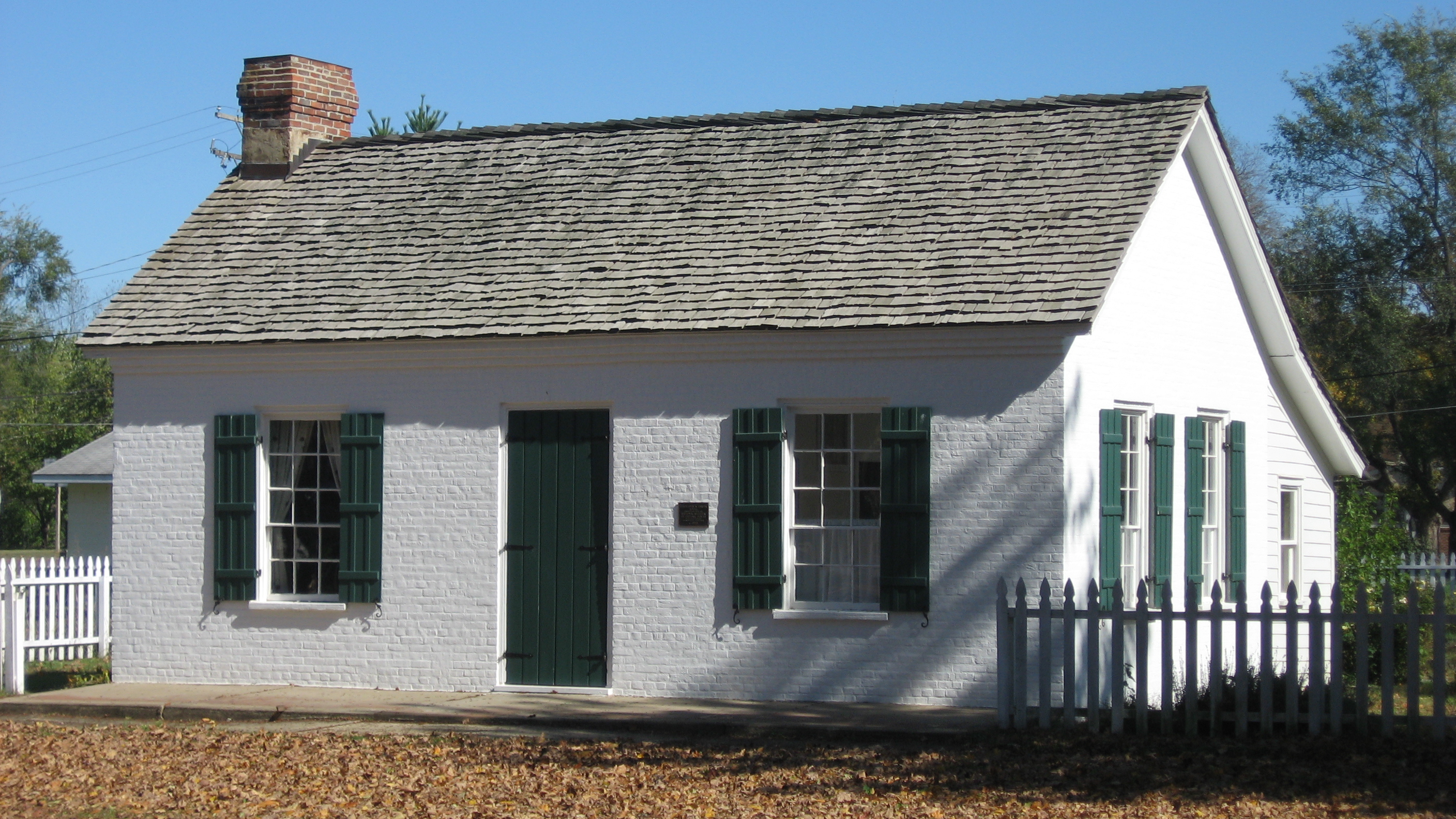 Front and southern side of the John B. Harper House, located at 102 N. Lincoln Street in Palestine, Illinois, United States. Built in 1830, it is the oldest surviving house in Crawford County, and it is listed on the National Register of Historic Places.